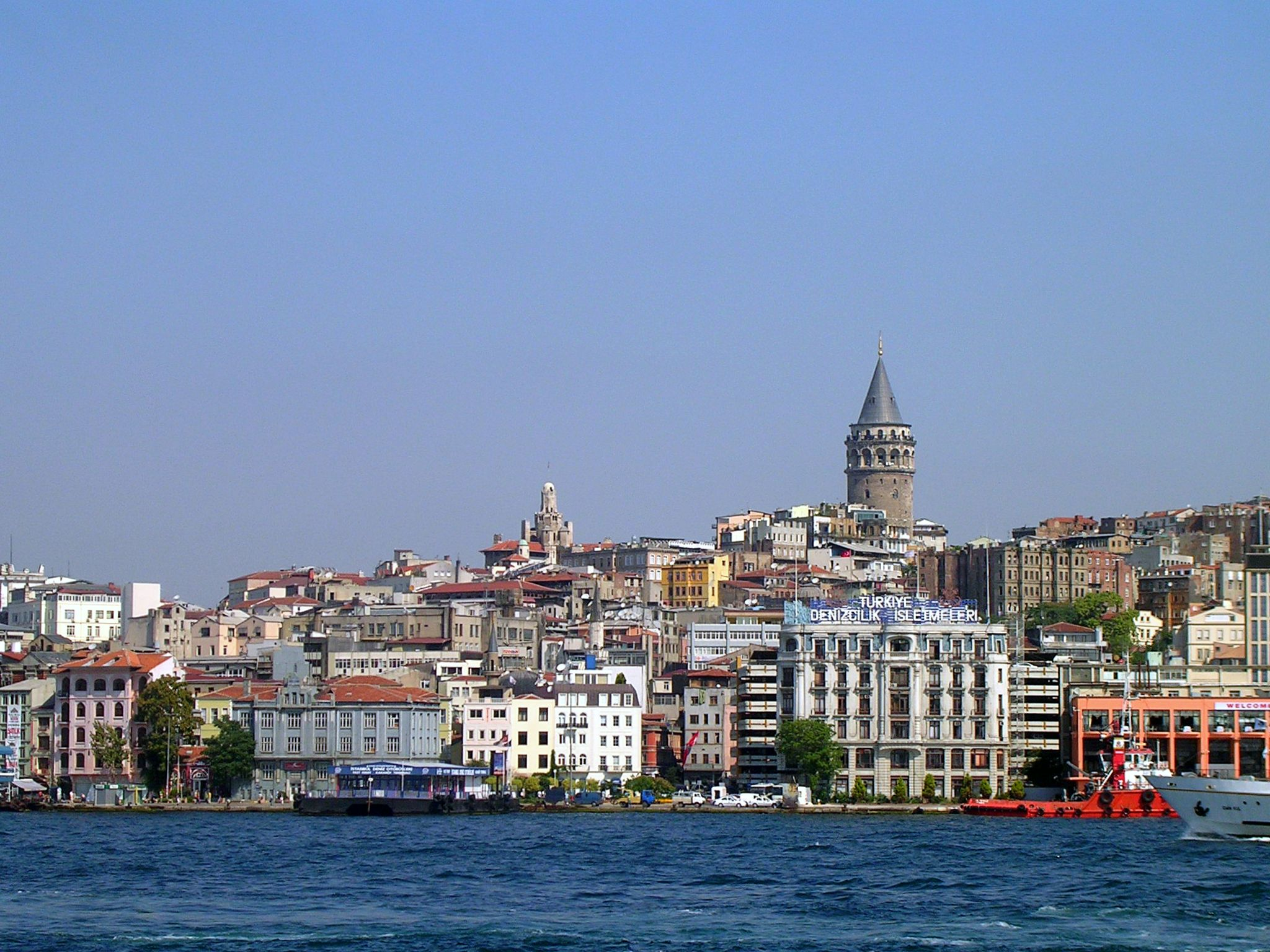 Galata Tower - port of Karakoy, Istanbul Turkey. Turkish State Maritime Lines (Türkiye Denizcilik İşletmeleri) headquarters.